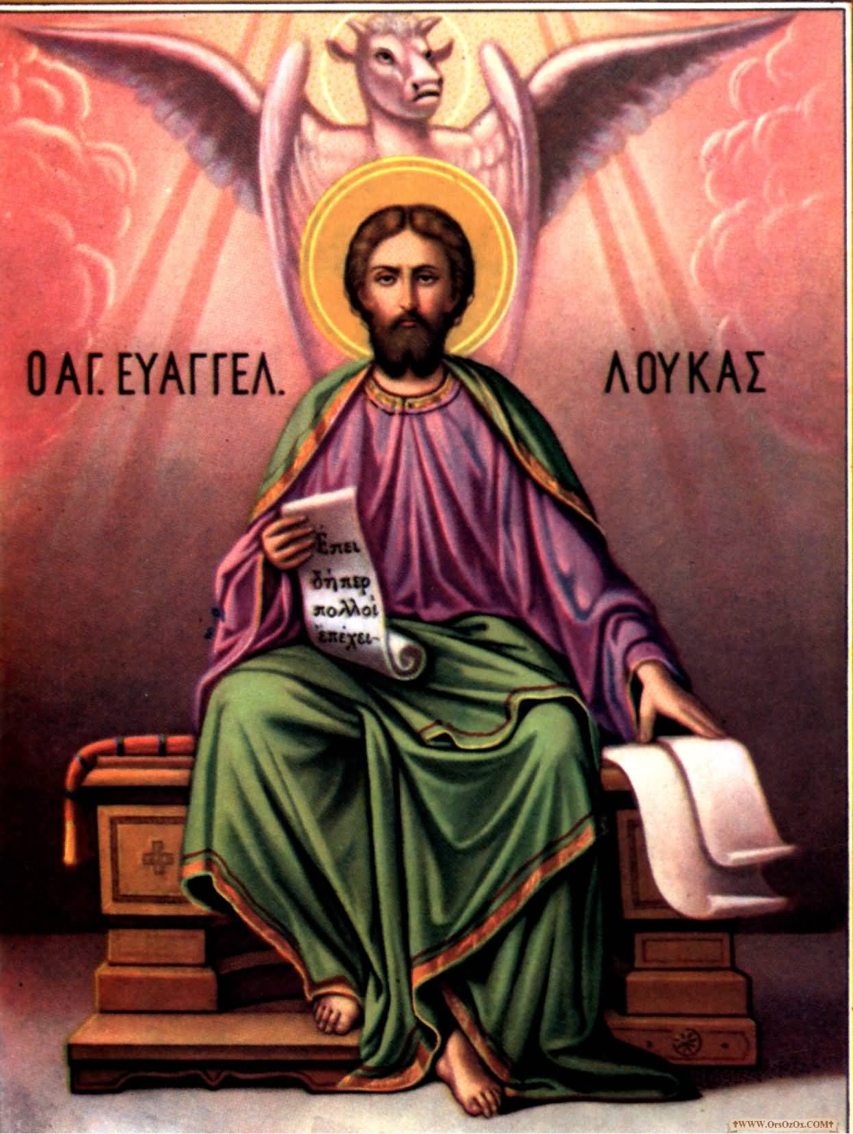 Apostle Luke